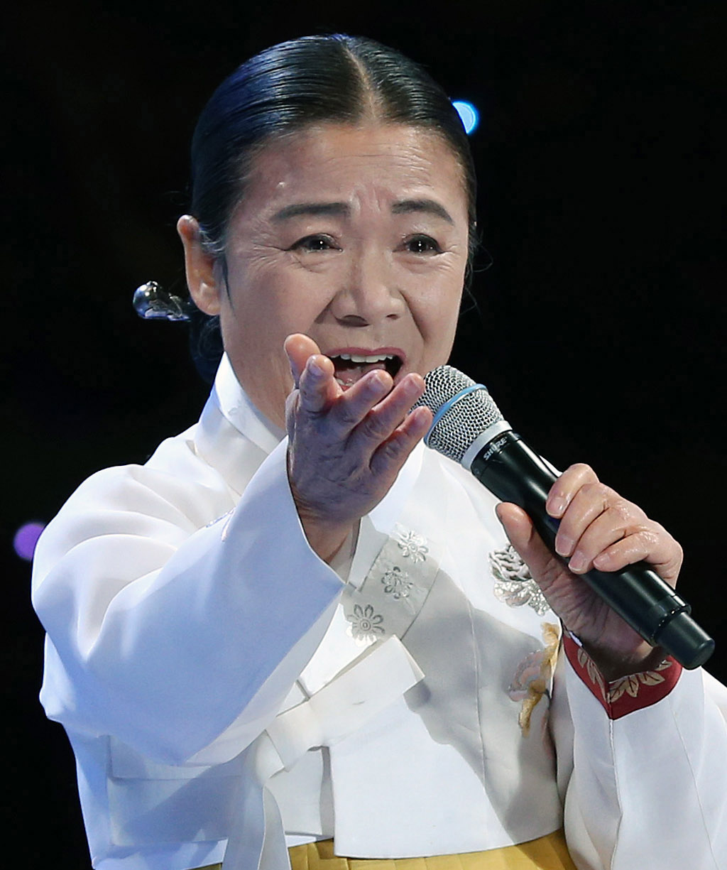 Ariang-themed concert at the Nokjiwon Garden of Cheong Wa Dae. Pansori master Ahn Sook-sun (left) and Lee Chun-hee perform during the concert.